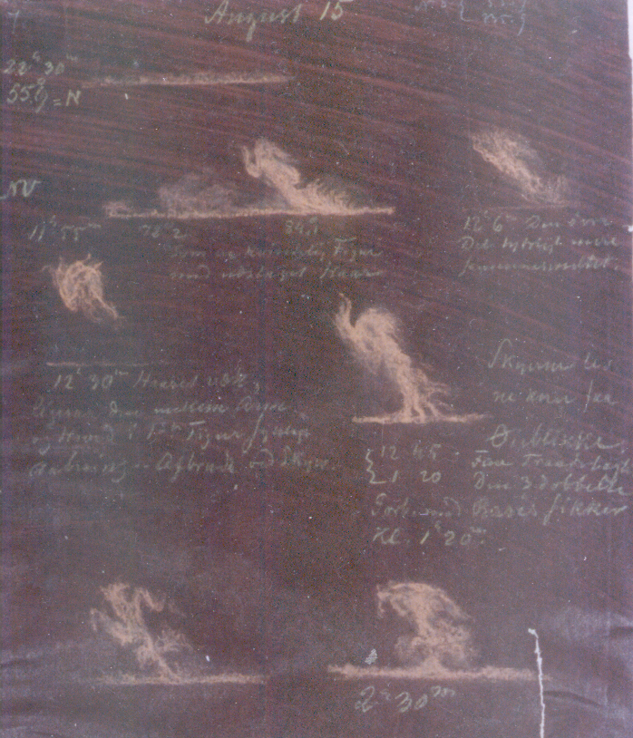 Chalk drawings of solar prominences by Professor C. F. Fearnley, University of Christiania (Oslo). These spectrohelioscopic observations in H-alpha were made during 1872-73 at the old University Observatory.